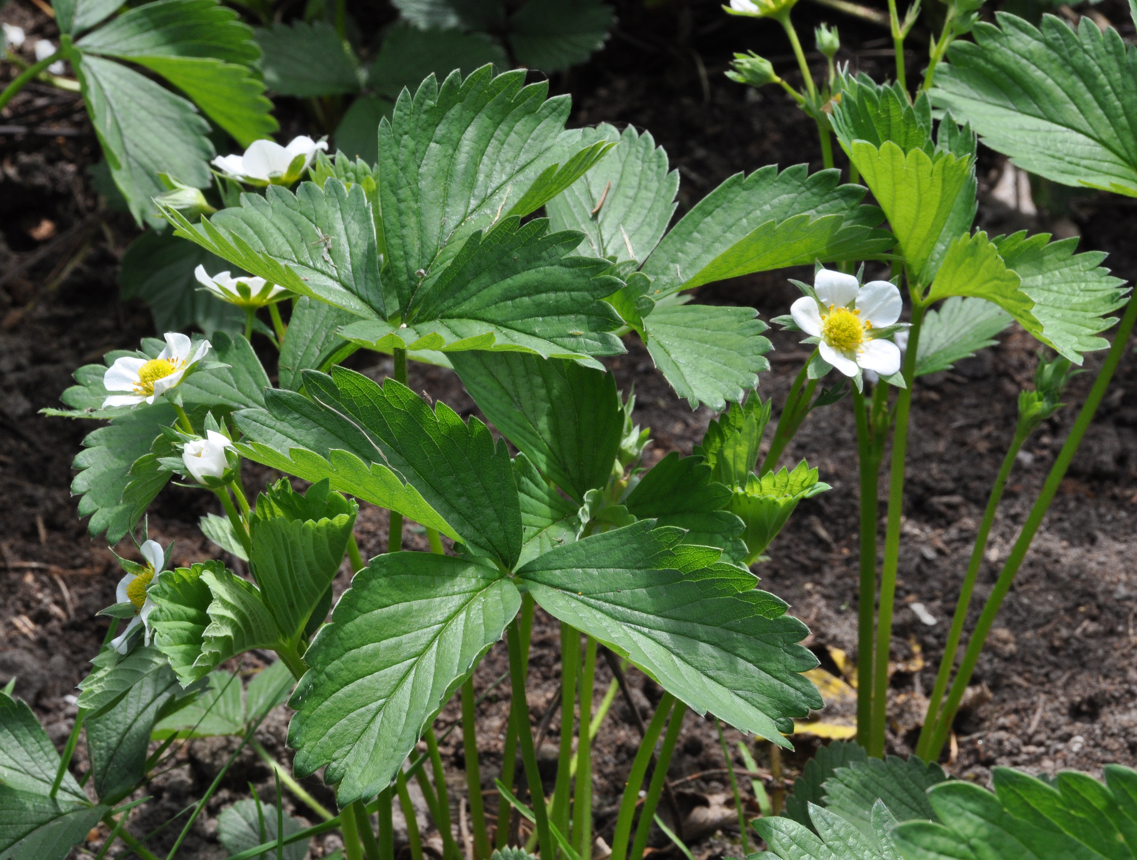 Garden Strawberry (Fragaria x ananassa)